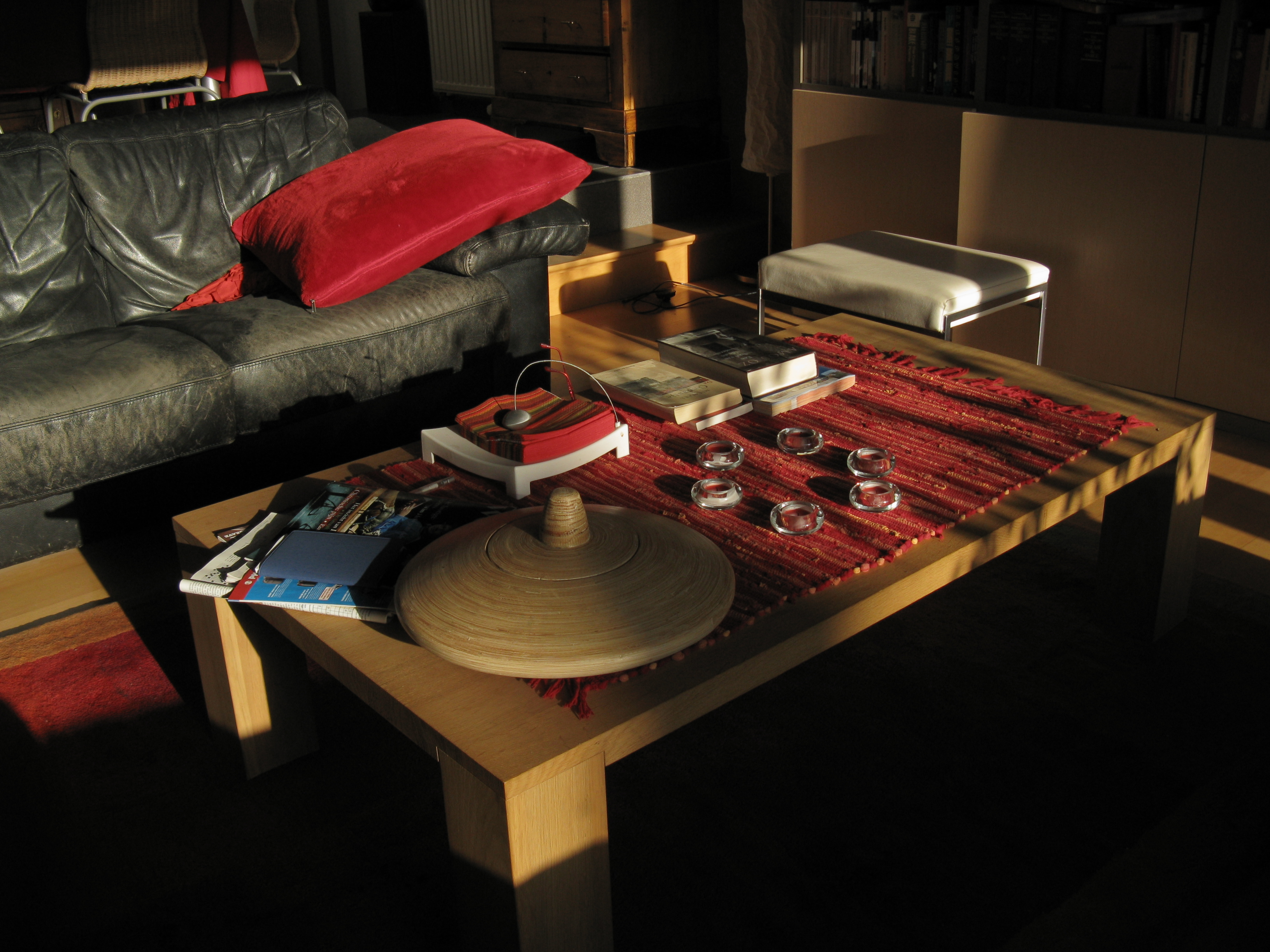 Sun and shade in the home sitting room.